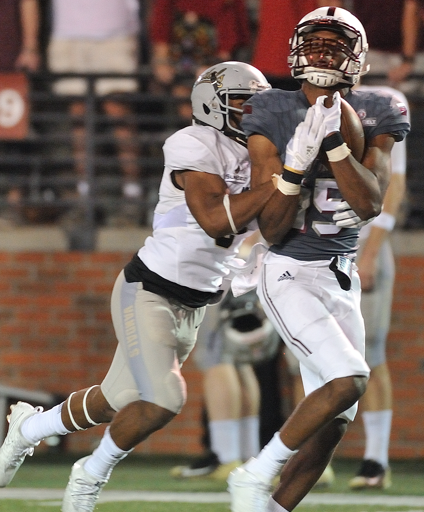 Damion Willis making a reception for Troy against Idaho in 2017